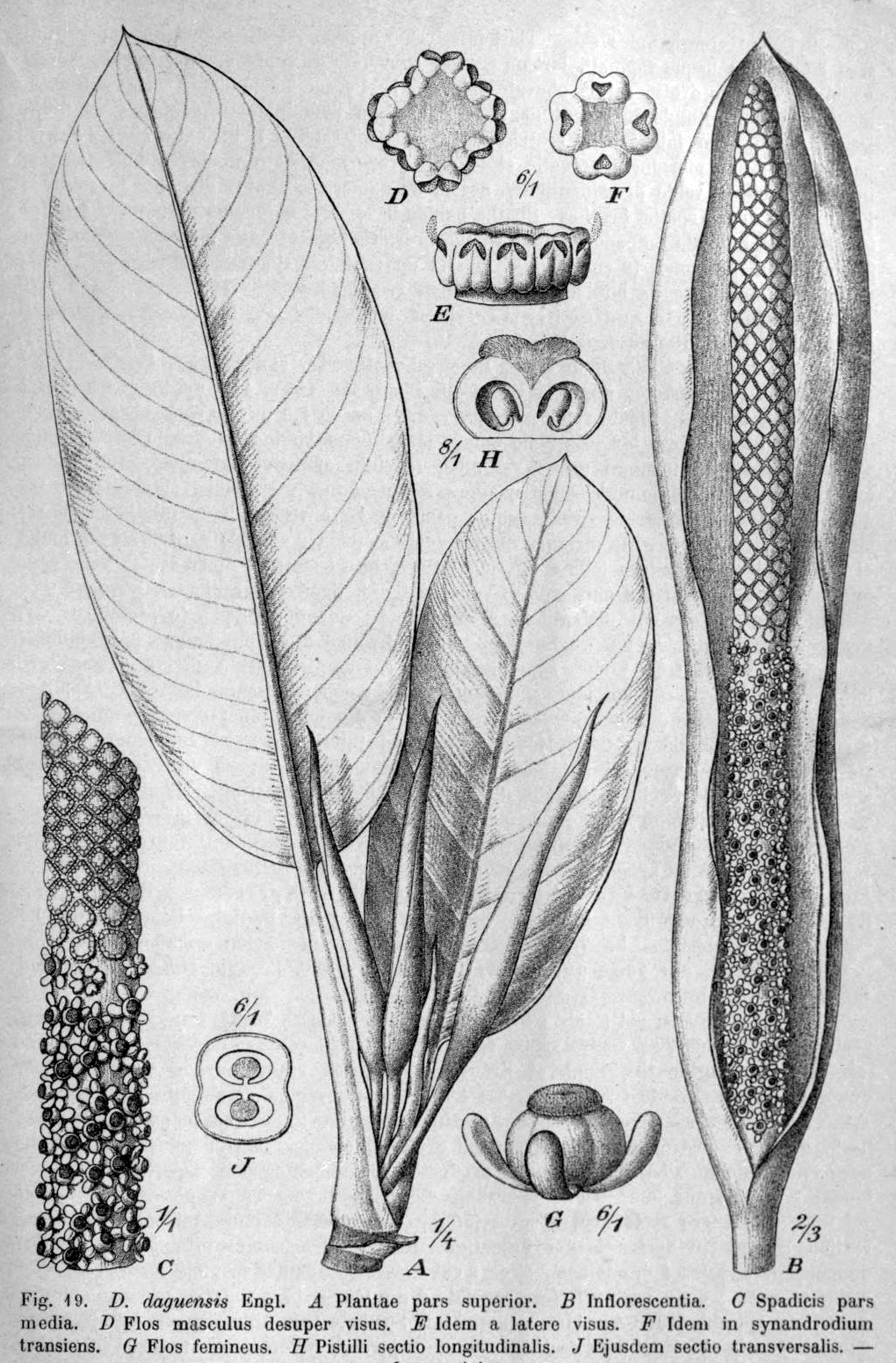 Dieffenbachia daguensis botanical drawing